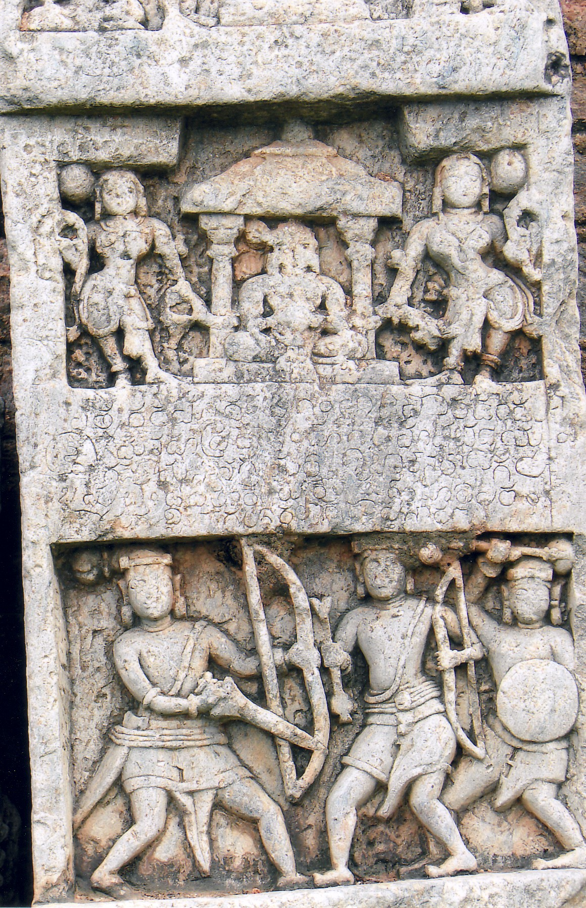 Photograph of a hero stone (Virgal) from the 13th century (c. 1220 CE)Hoysala period was taken by self (Dinesh Kannambadi) at the Isvara temple (also spelt Ishvara or Ishwara) in Arasikere, Hassan district, Karnataka state, India